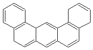 Tetrahydro-Dibenzo[a,j]anthracene scheme